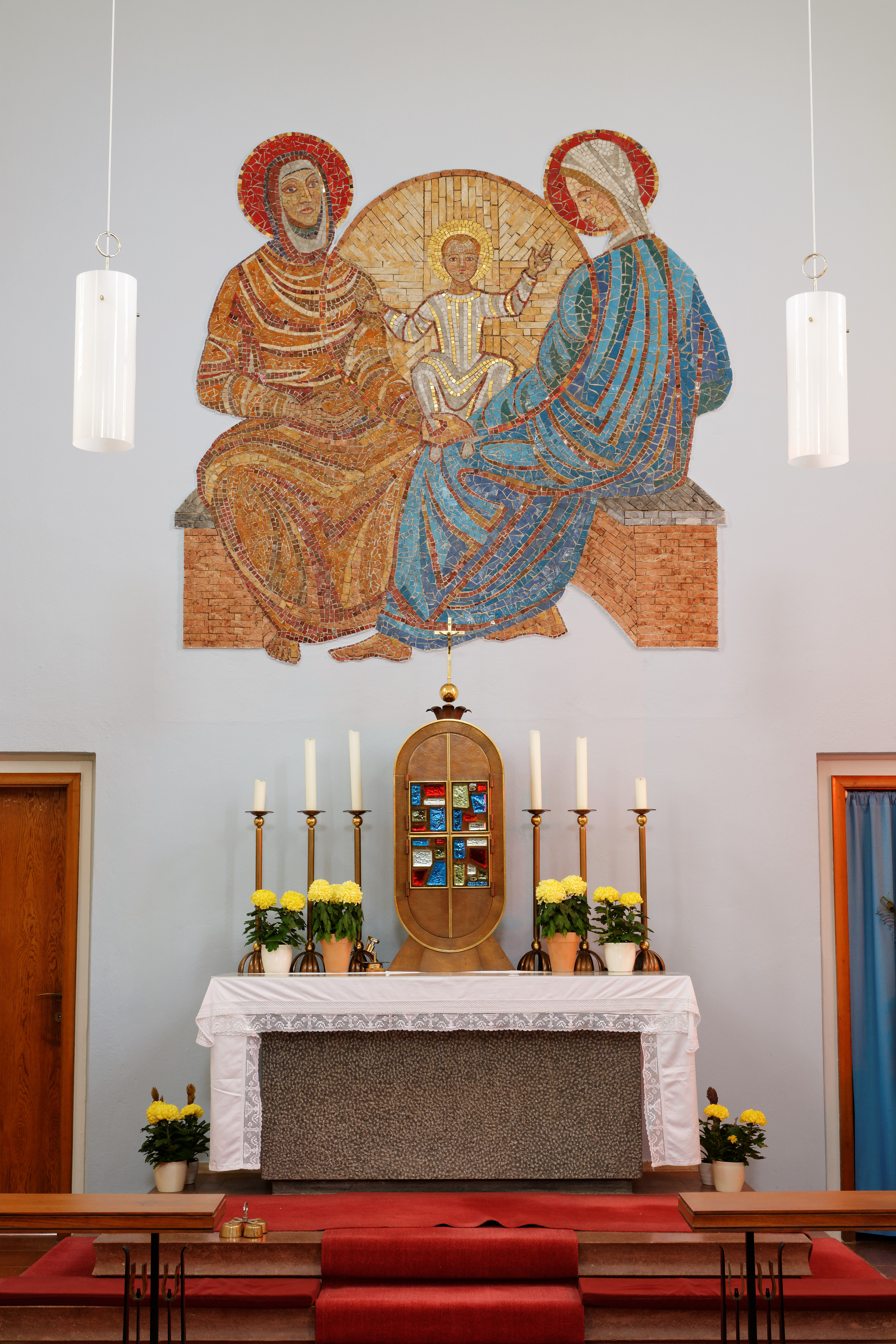 High altar in the catholic succursal church at Steinebrunn, Municipality Drasenhofen, Lower Austria, Austria